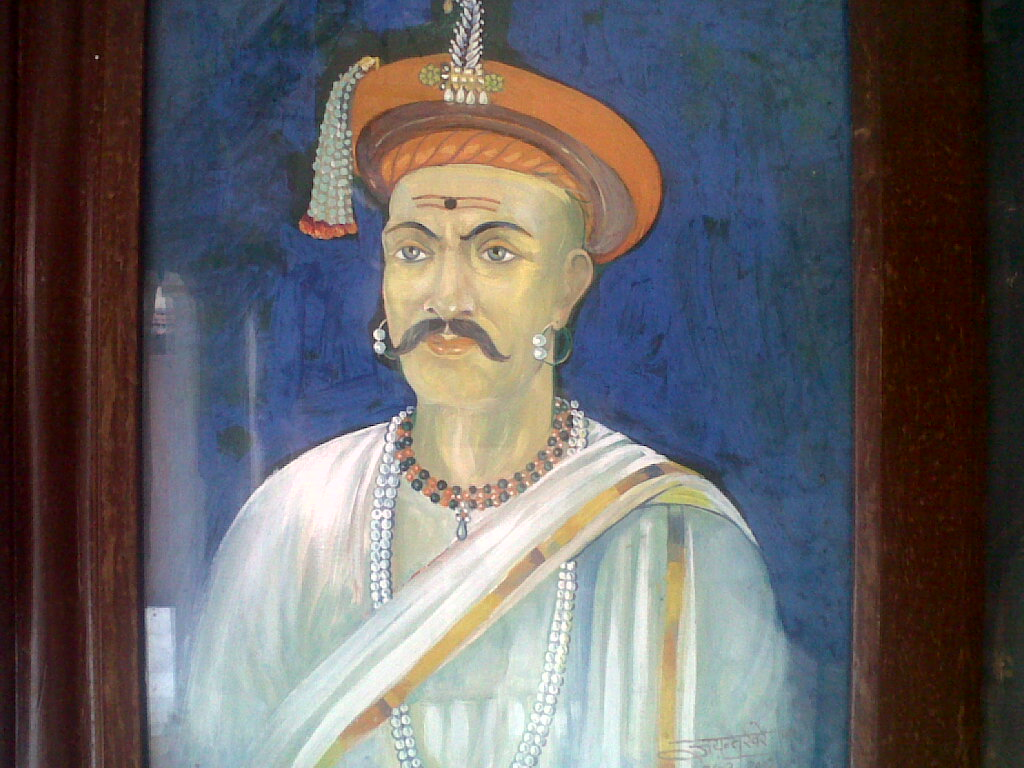 A portrait of His Highness Balaji Vishwanath Peshwa, a part of the Peshwa Memorial atop Parvati Hill in Pune, India. He was the first 'Peshwa' from the Bhat family and served as a Prime Minister or Chief Minister to the Supreme Mahratta Emperor (the Chhatrapati)